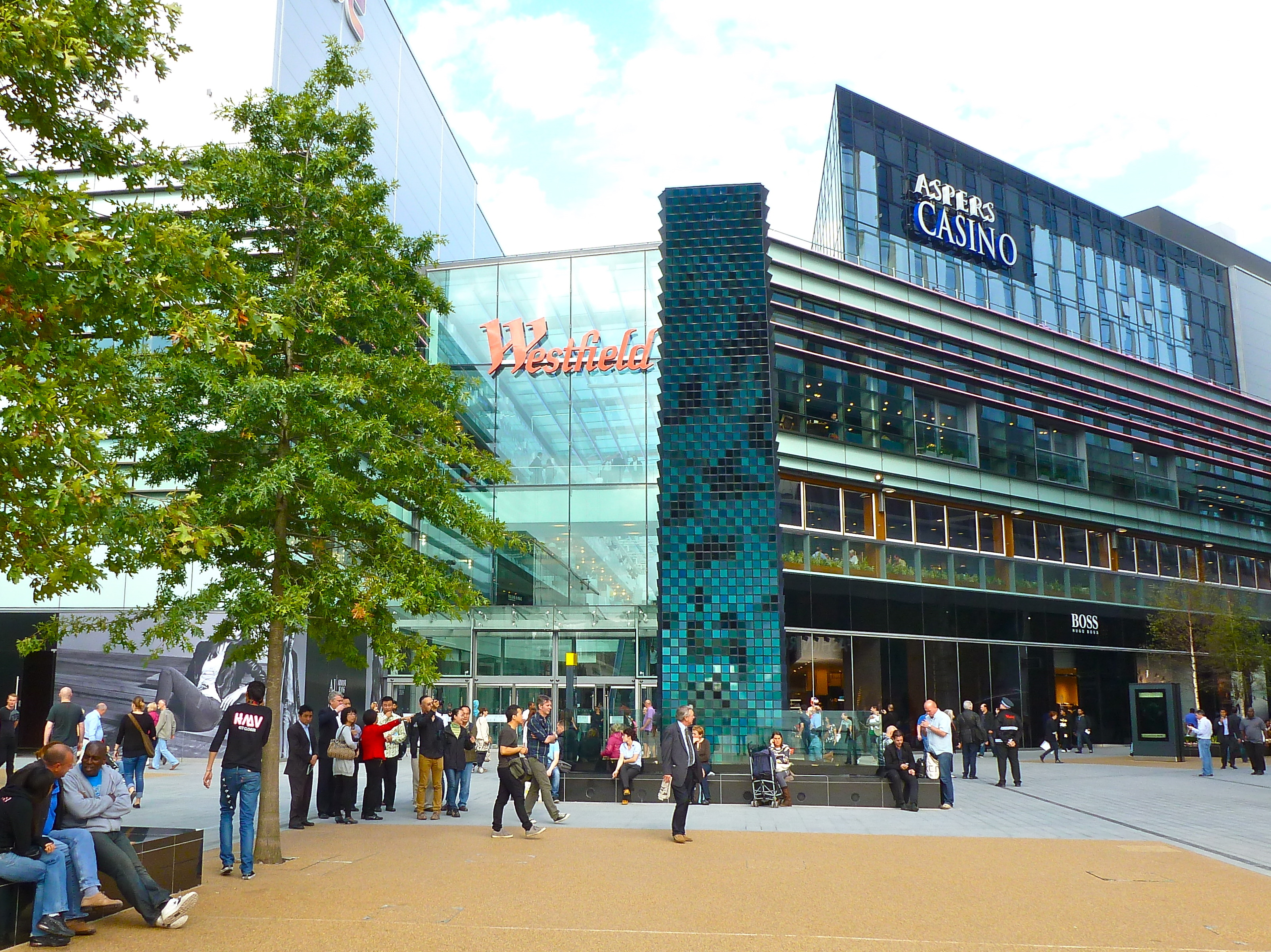 External view of Stratford City shopping centre